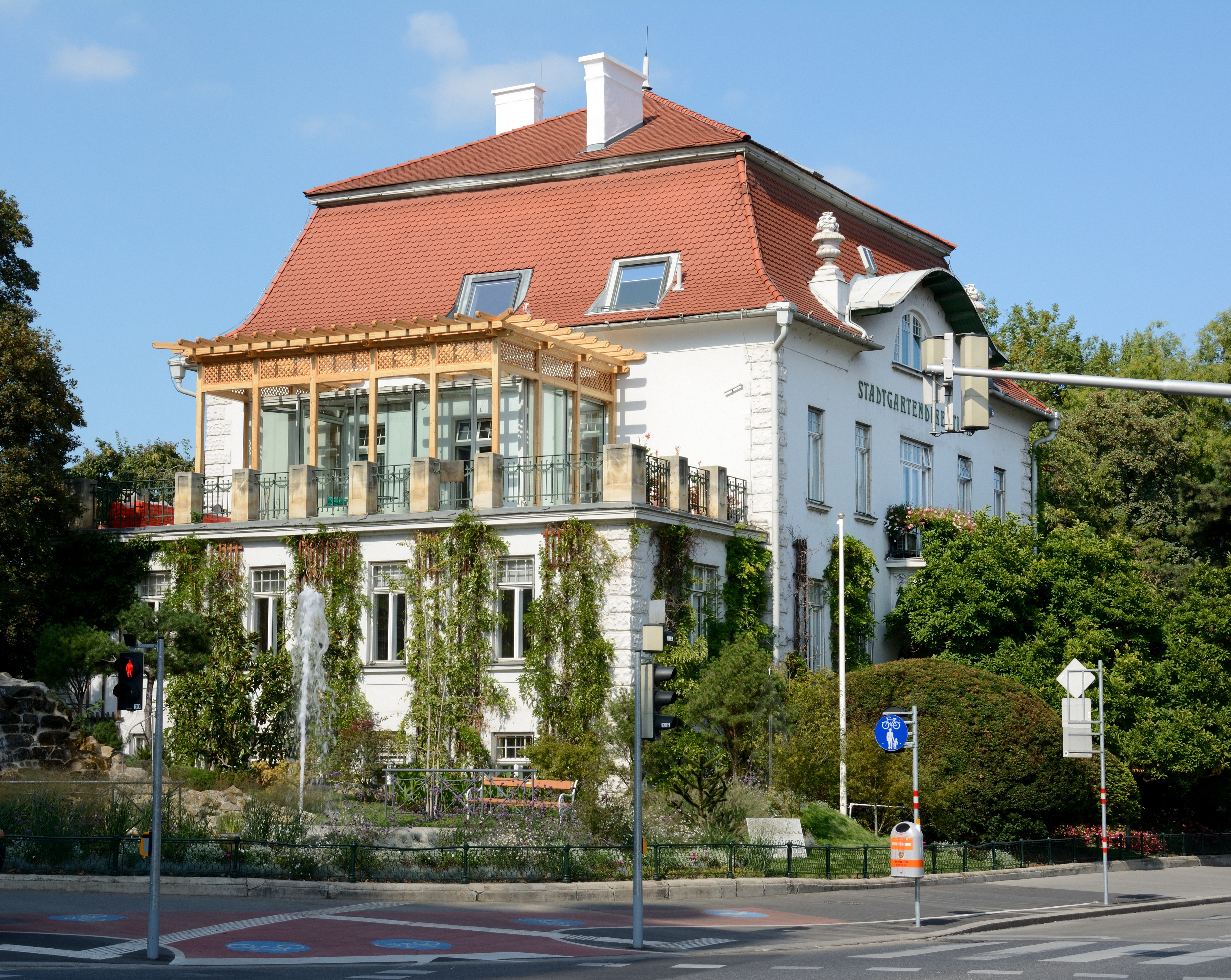 Art Nouveau building - headquarters of the city garden management, Johannesgasse 35, 3rd district of Vienna